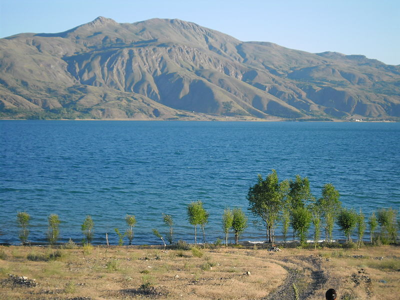 Hazar Lake, Elazig, Turkey, near a lake of tectonic stretching southwest-northeast direction. Length 22 km, the width is about 5-6 km. Turkey is one of the deepest lakes.